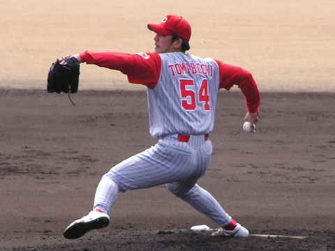 Tetsuto Tomabechi, pitcher of the Hiroshima Toyo Carp, at Nichinan Tempuku Baseball Stadium.